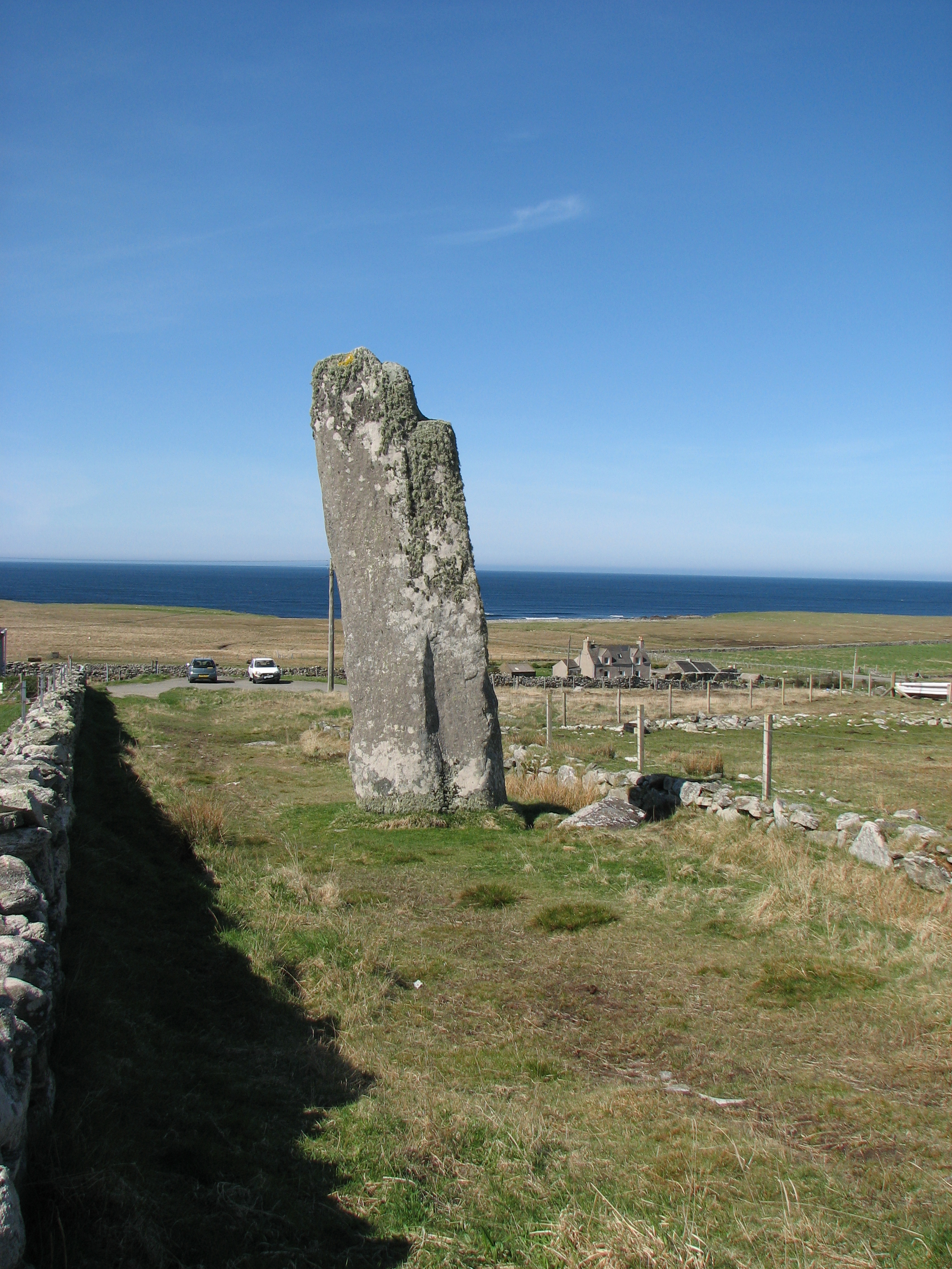 Photo of Clach an Truiseil ( Clach an Trushal )